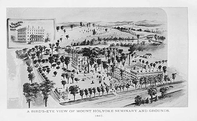 "A Bird's Eye View of Mount Holyoke Seminary and Grounds. 1887" (according to source: frontispiece)